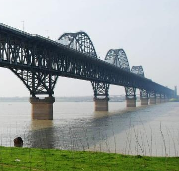 The Jiujiang Yangtze River Bridge between Jiangxi and Hubei (China)